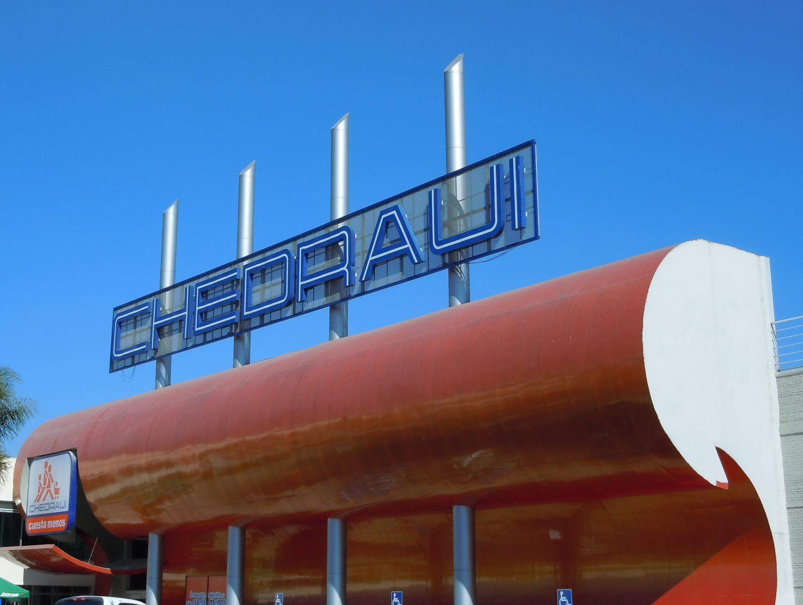 Wowie, it's Chedraui.